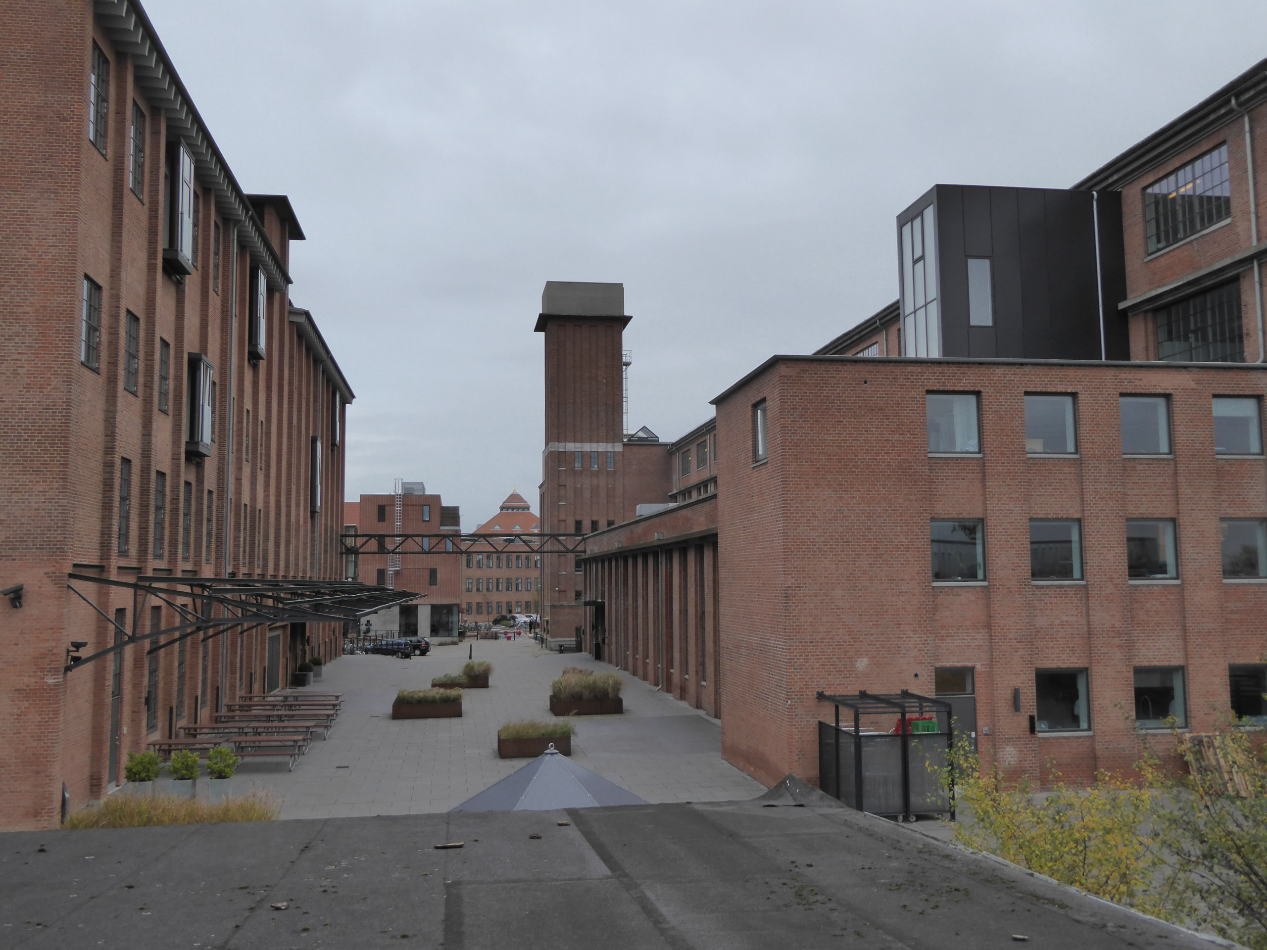 The former Henkel factory on Carl Jacobsens Vej in Valby, Copenhagen, Denmark